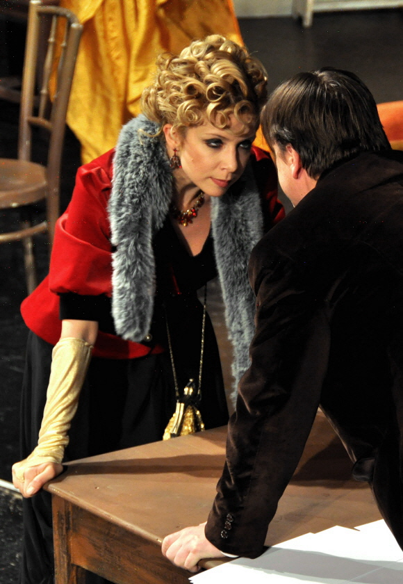 Patrícia Kovács and Ferenc Fandl.